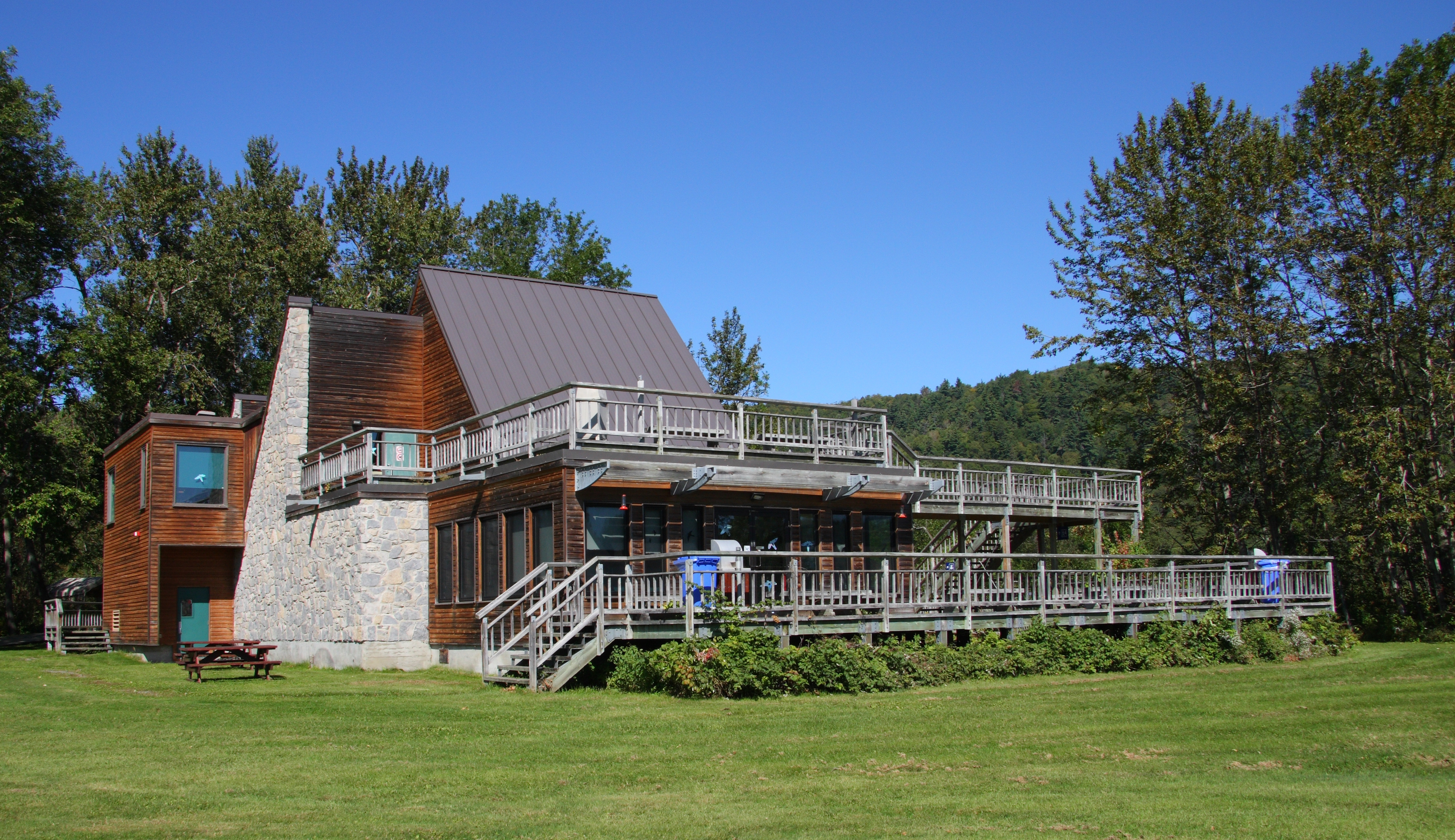 Interpretation centre, Cap Tourmente National Wildlife Area, Quebec, Canada